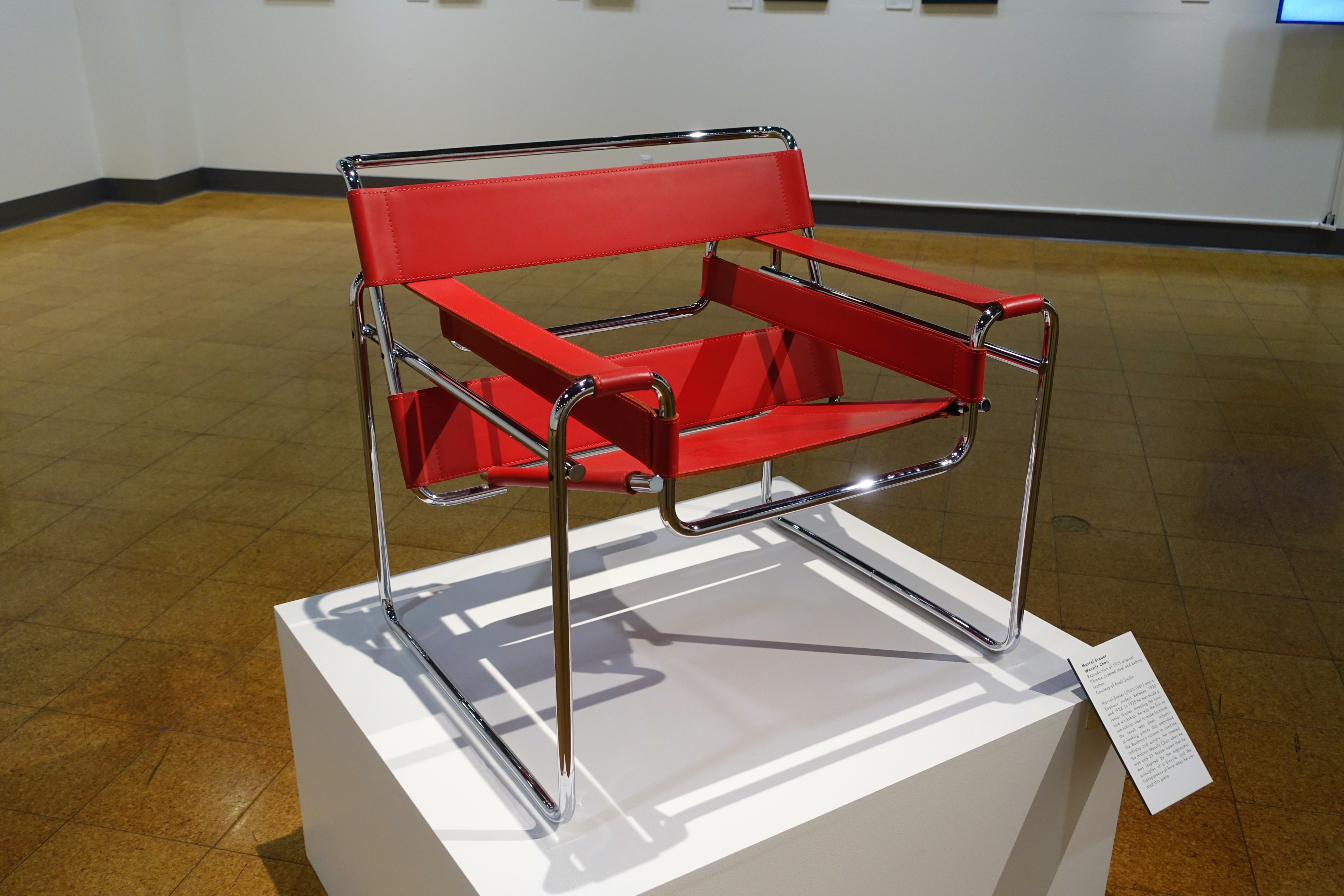 Wassily Chair by Marcel Breuer, reproduction, 1925, chrome covered steel and belting leather - University of Arizona Museum of Art - University of Arizona - Tucson, Arizona, USA. As a utilitarian object, this exhibit is NOT subject to copyright laws. Instead it is subject to Industrial Design Rights; see Industrial Design Right for more information. If this object was ever covered by a design patent, that patent has expired, and thus this image is in the public domain.